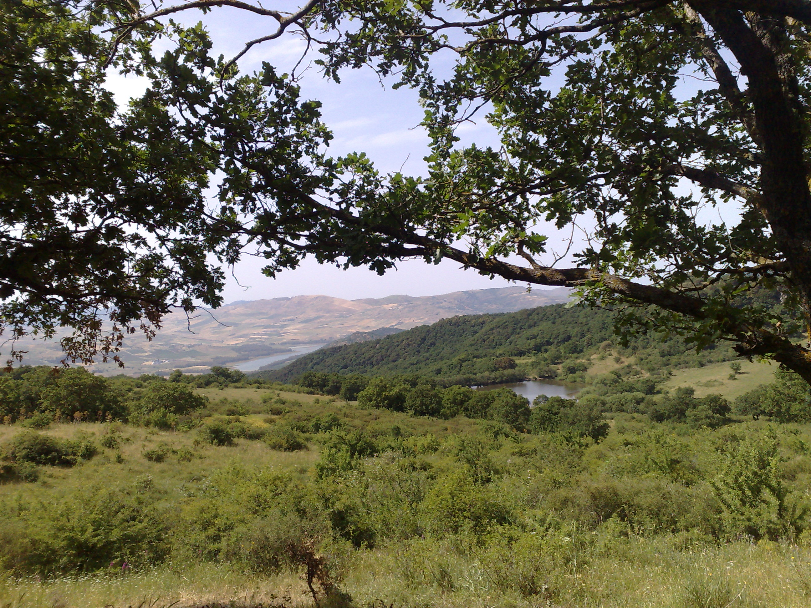 Ficuzza park (Palermo)